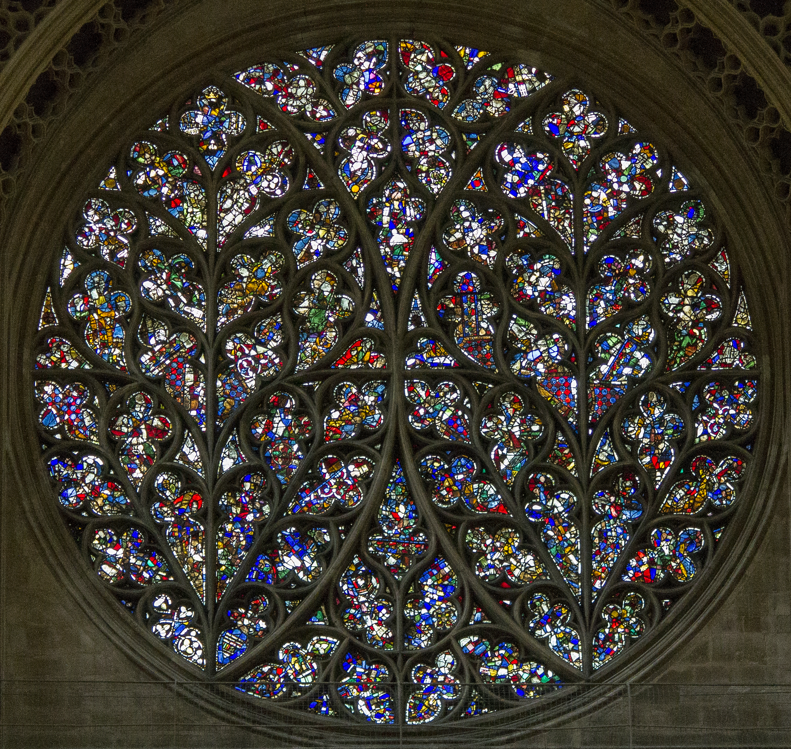 14th C fragments in this South Transept rose window.